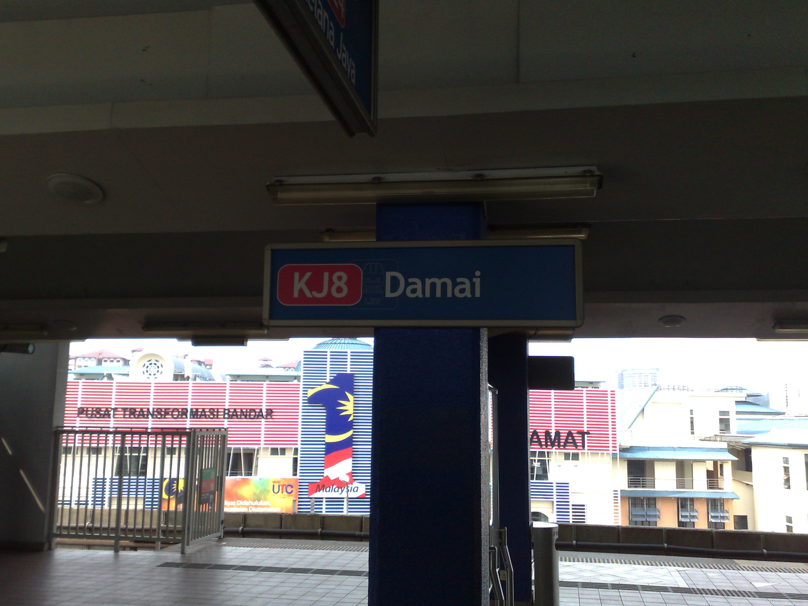 Damai LRT